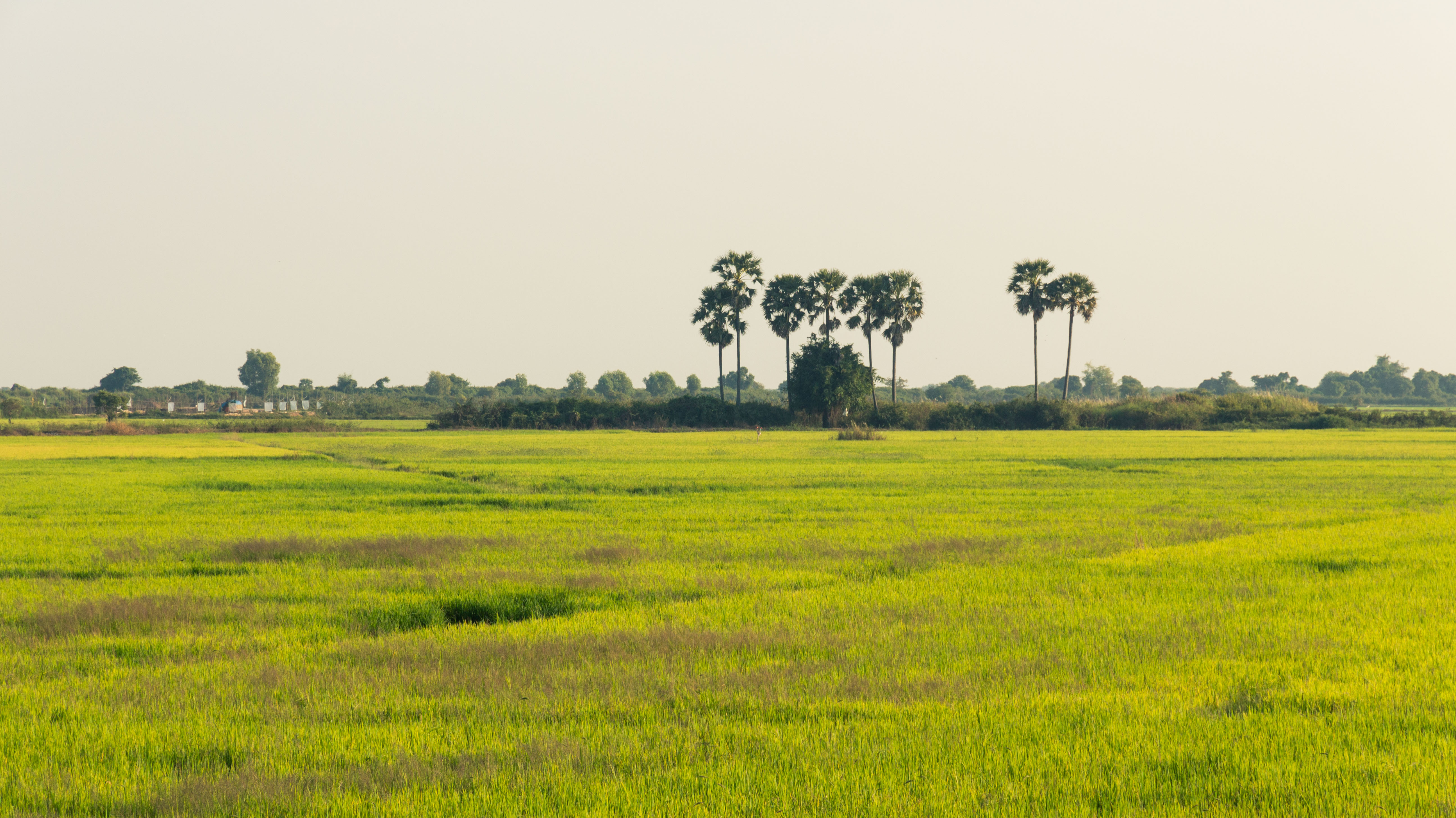 Cambodia's rice fields near Siem Reap